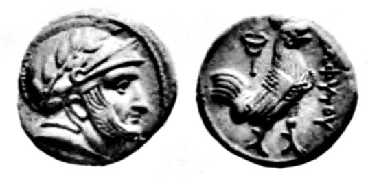 Whitehead Coins of the Punjab Museum Plate IX Sophites